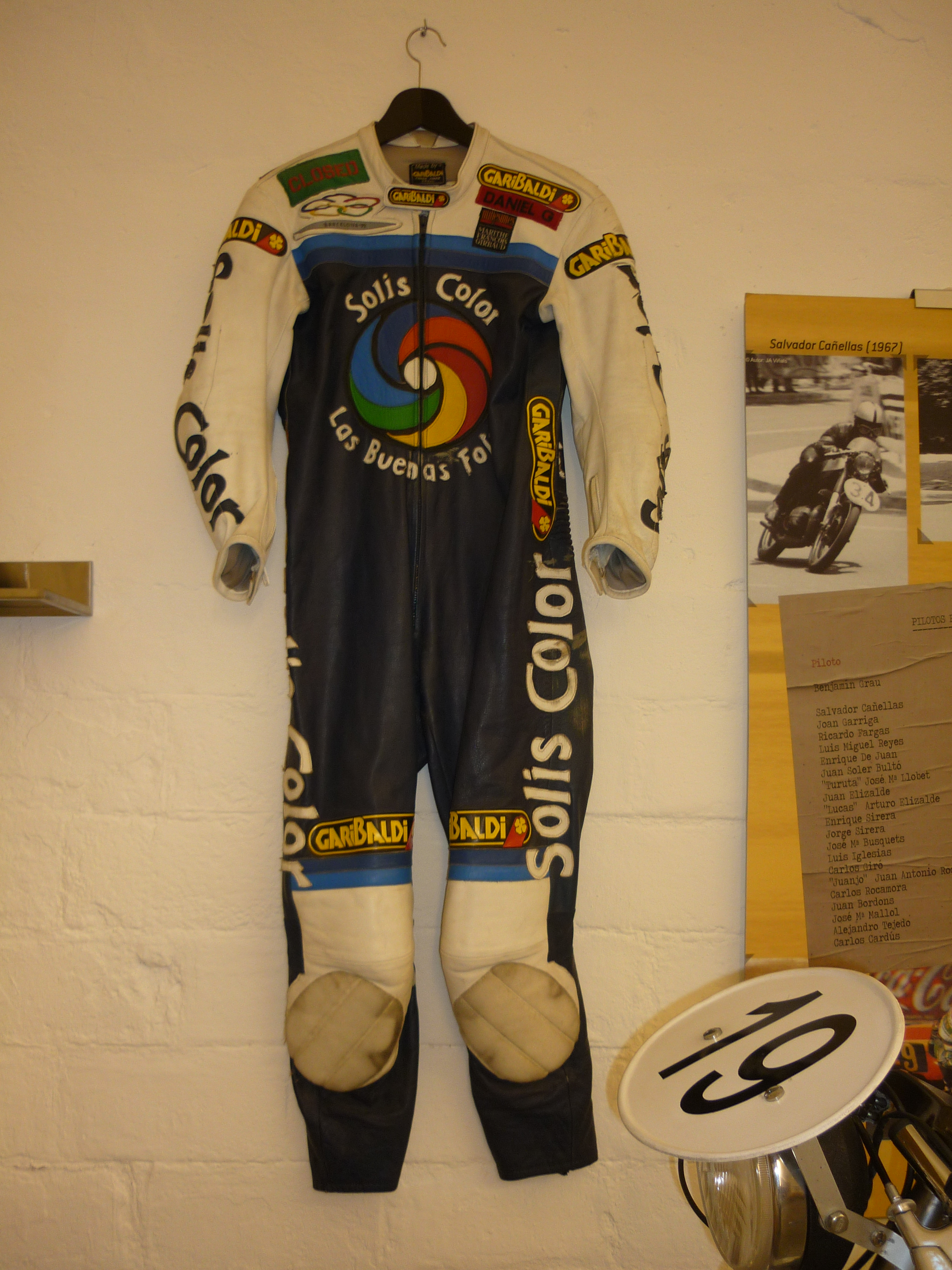 This is the boilersuit that wore Benjamí Grau during the XXXII 24 Hours of Montjuïc, on 1986. He won that race.